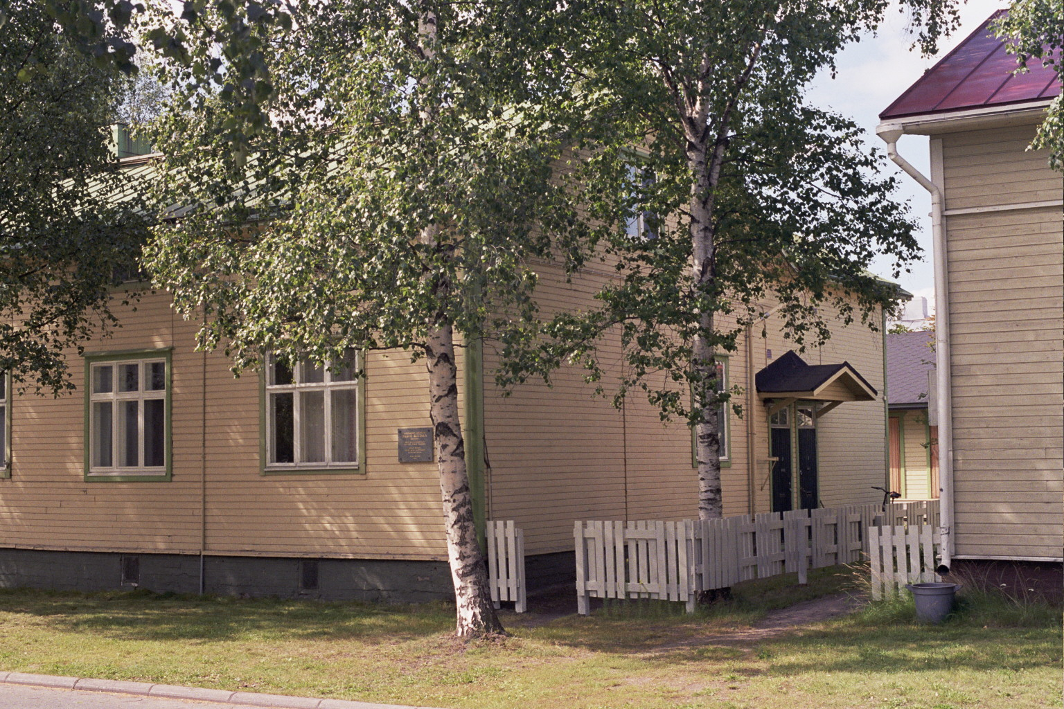 A wooden house at Karjakatu 24 in the Raksila district of Oulu, Finland. Finnish author Paavo Rintala (1930–1999) lived in the house as a teenager and young man.